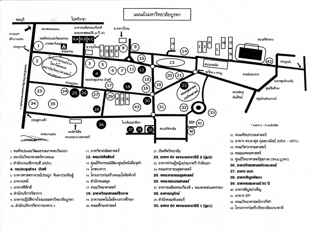 Burapha university Map